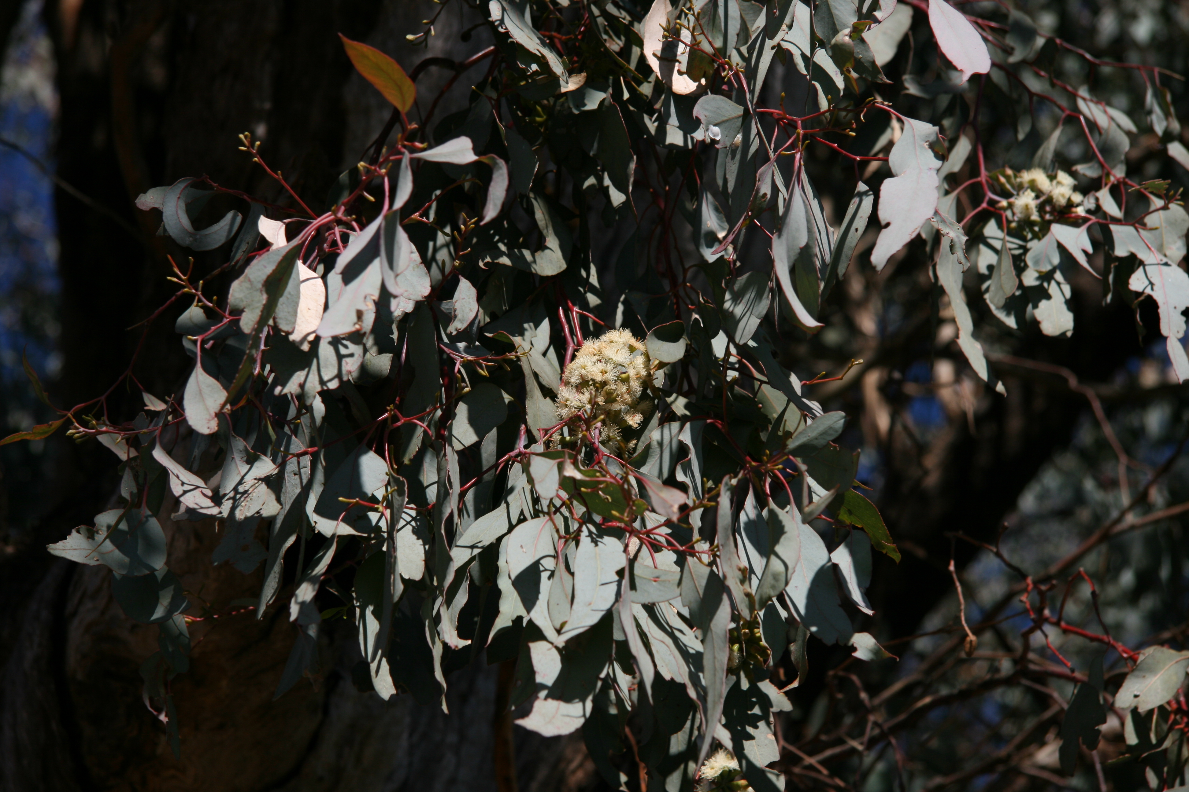 white box (Eucalyptus albens) - roadside of Babbinboon Rd sth of Somerton, NSW (flwrs)